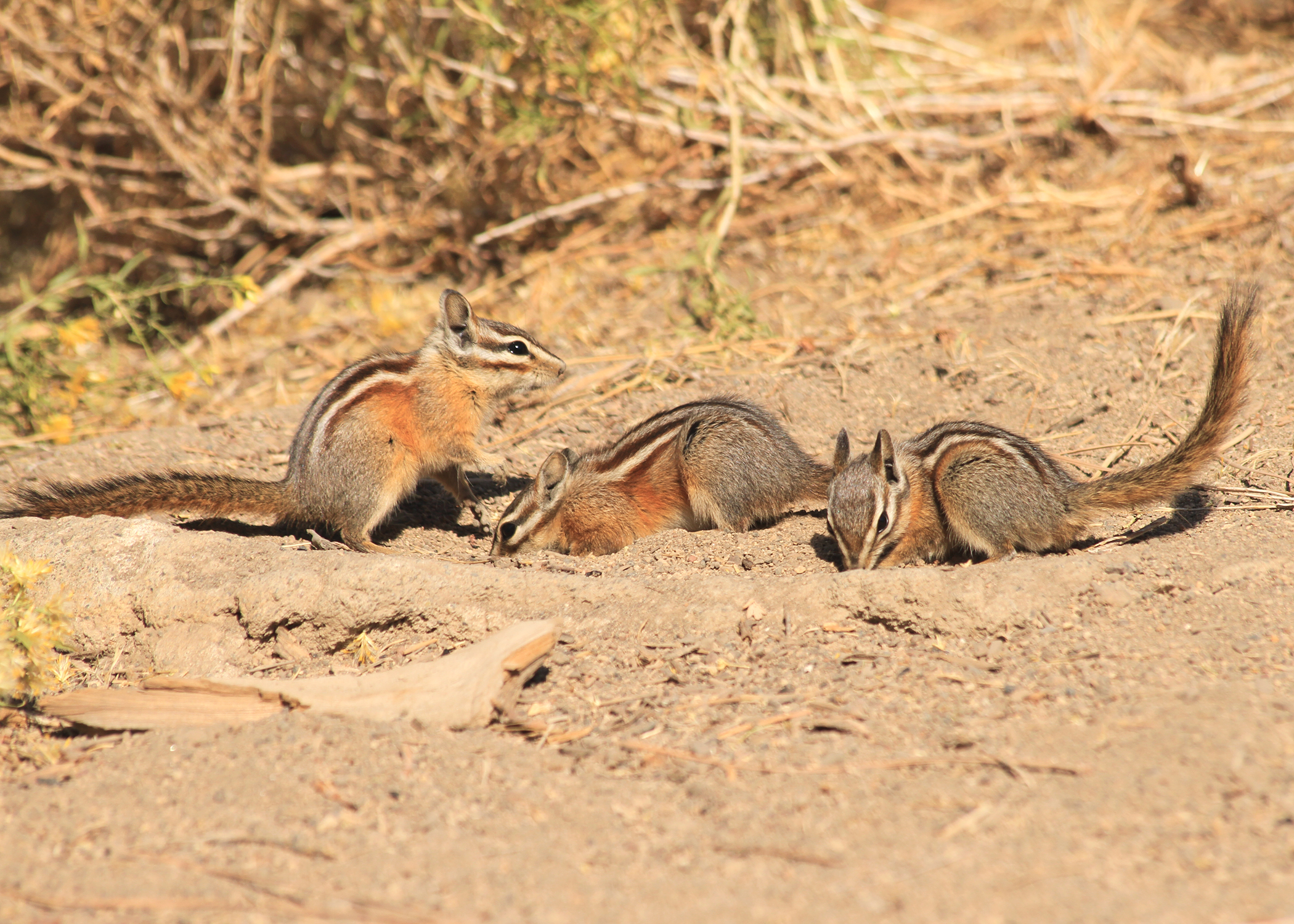 Yellow-pine_Chipmunk_2a_wray